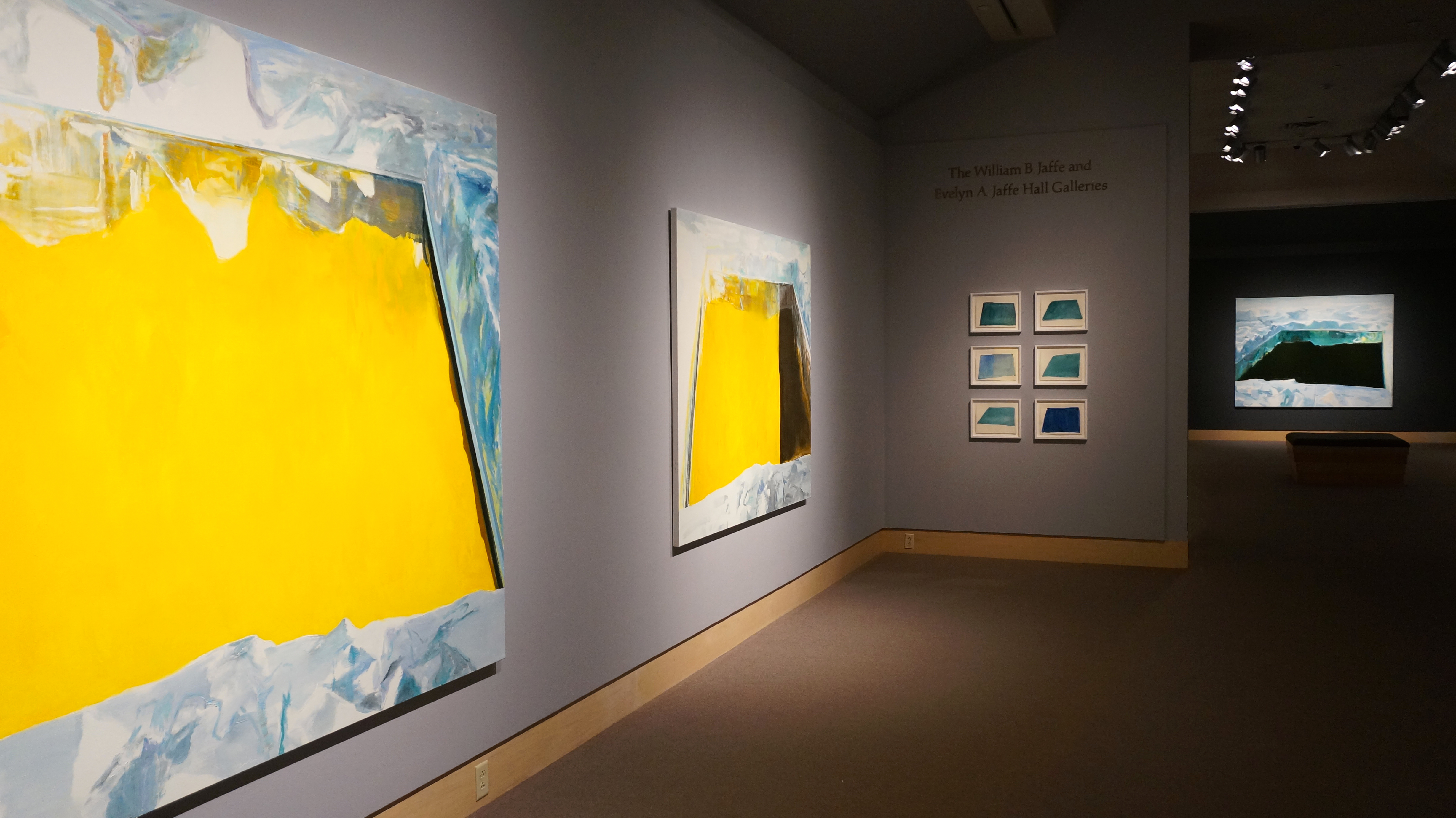 The exhibition "Eric Aho: Ice Cuts" was on view at the Hood Museum of Art January 9 through March 13, 2016. Vermont-based artist Eric Aho’s series of Ice Cuts paintings is inspired by the hole cut in the ice in front of a Finnish sauna, an aspect of Finnish culture that Aho’s family has maintained to this day. Intended for an icy immersion following the heat of the sauna, the avanto, as it is called in Finnish, underscores and personalizes the inherent contrasts in nature. Aho began the Ice Cuts series nine years ago, making one painting a year of the dark void produced by the act of sawing into the thick ice. This exhibition is the first to concentrate on the Ice Cuts paintings he has created to date. The central abstract form in these compositions provides the structure for experimentation with paint texture, surface, and subtly nuanced color, lending these frozen scenes both an austere beauty and a particular vibrancy. This exhibition brings together the major paintings in the series to date and smaller, related works on paper to offer unique insight into the artistic process. This exhibition was organized by the Hood Museum of Art and generously supported by the Philip Fowler 1927 Memorial Fund and the Ray Winfield Smith 1918 Memorial Fund. Curated by Katherine W. Hart, Senior Curator of Collections and Barbara C. & Harvey P. Hood 1918 Curator of Academic Programming / Eric Aho